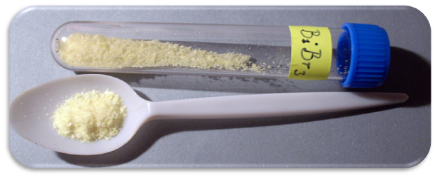 Bromid bismutitý - BiBr3